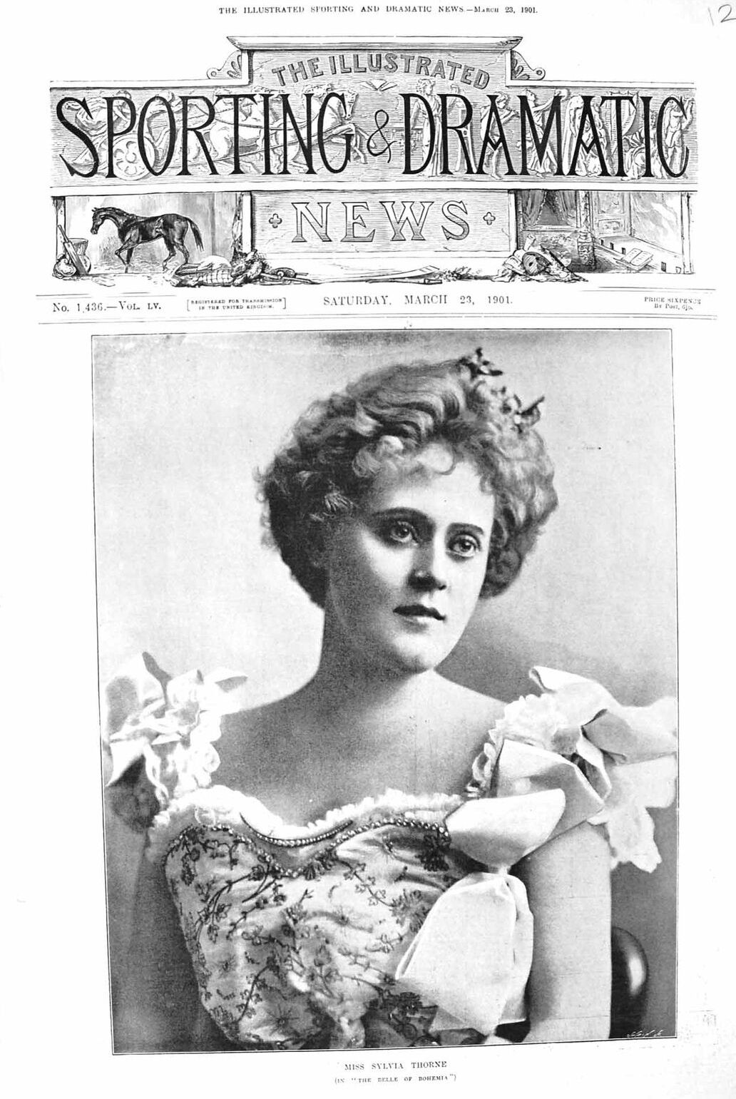 Sylvia Thorne in The Belle of Bohemia - The Illustrated Sporting and Dramatic News, No. 1436, Vol. LV, 23 March 1901